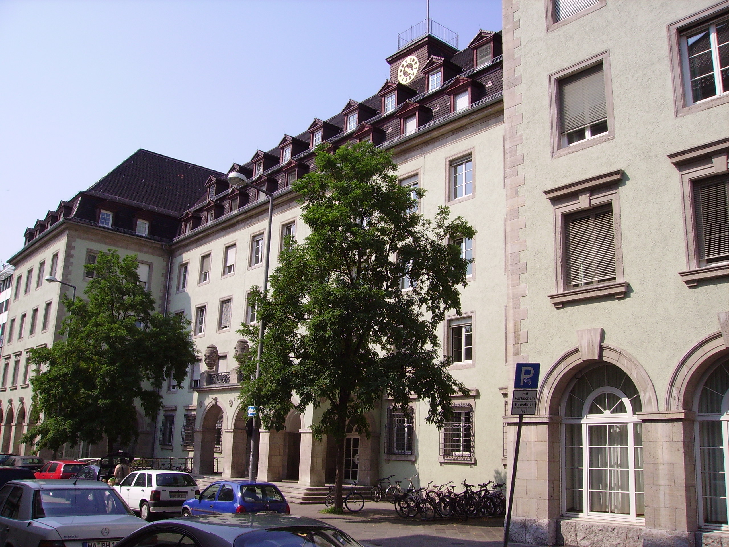 view of Mannheim, Germany